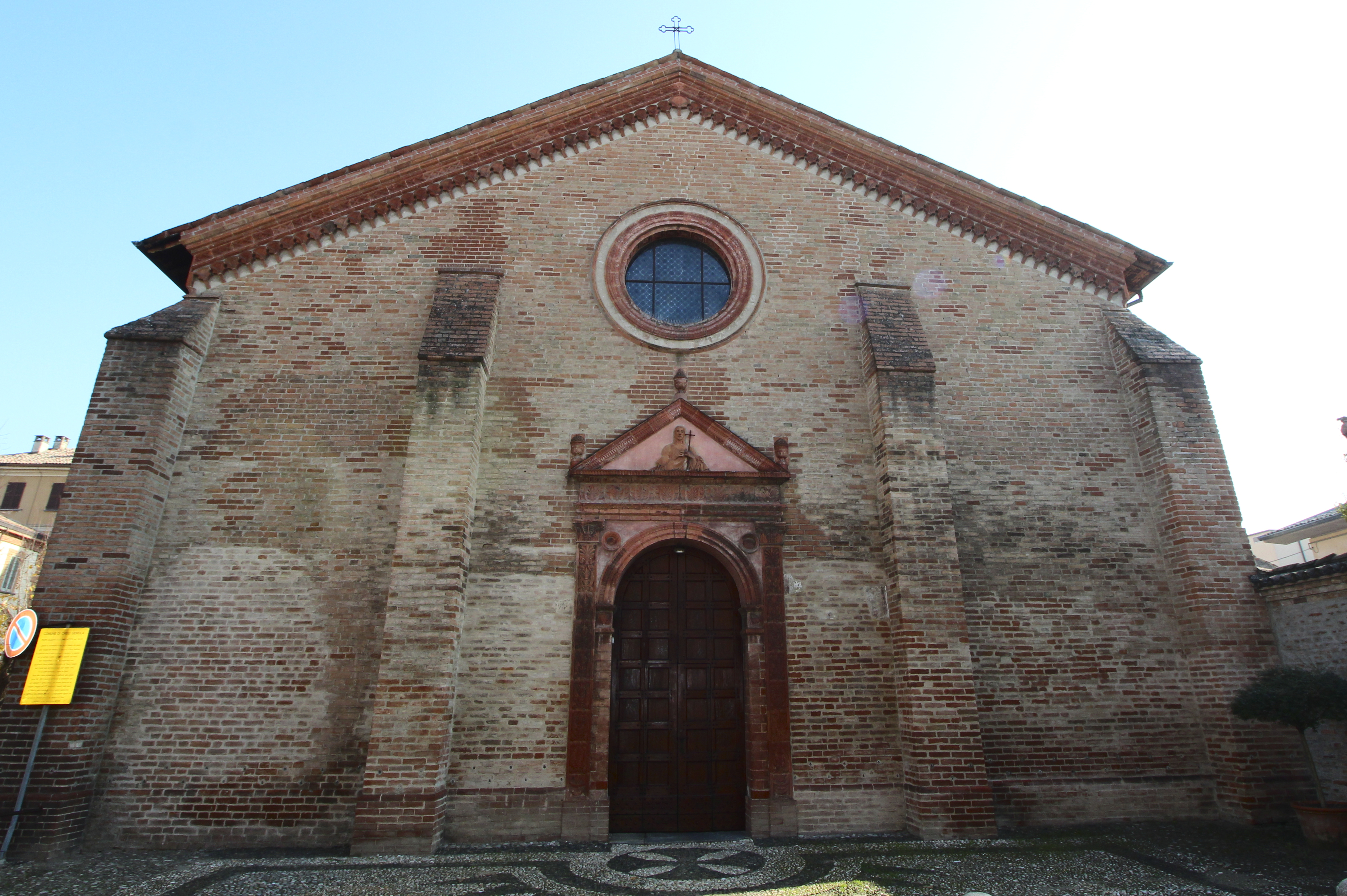 Church San Giovanni Battista, Casei Gerola, Province of Pavia, Lombardy, Italy